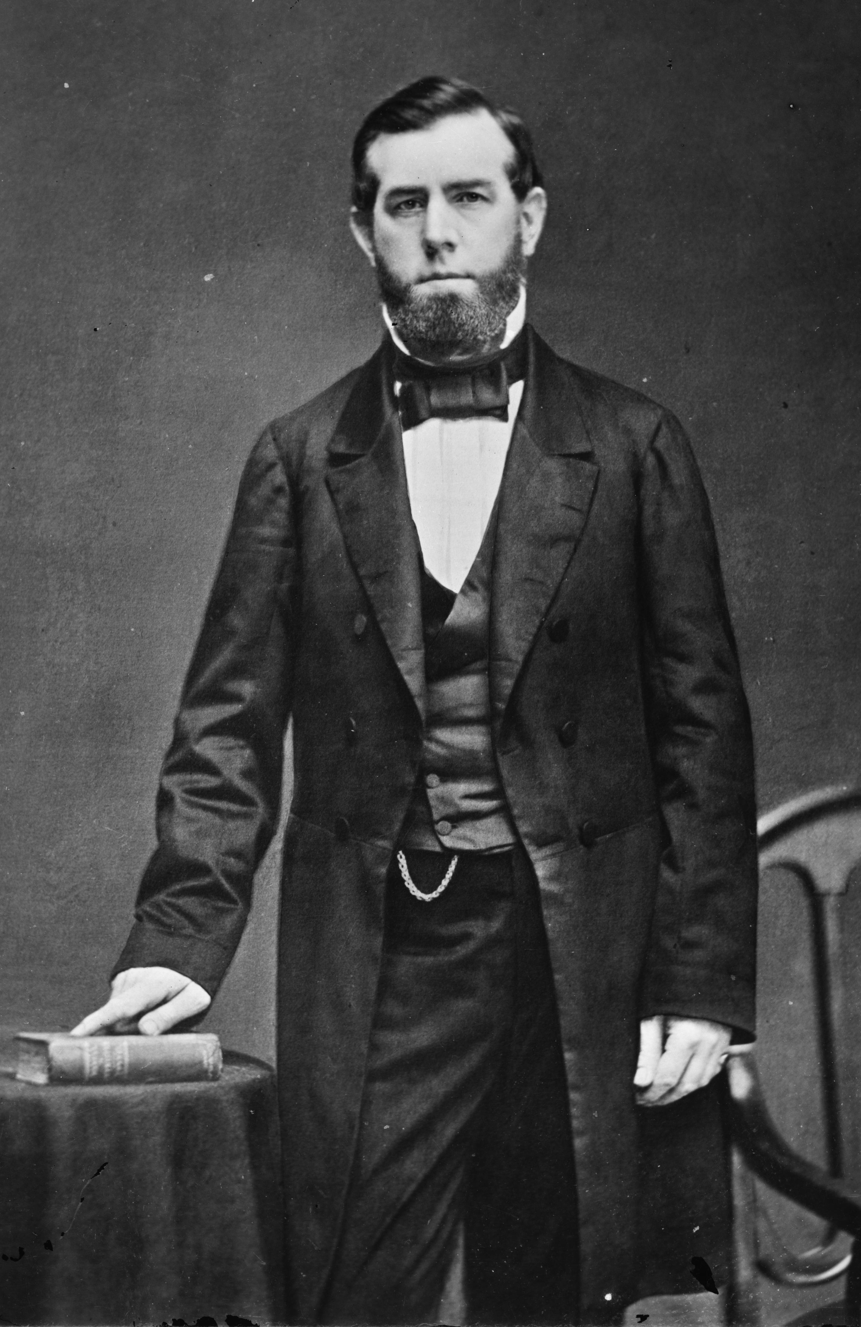 David C. Broderick (1820-1859). Library of Congress description: "Hon. David C. Broderick of Cal."